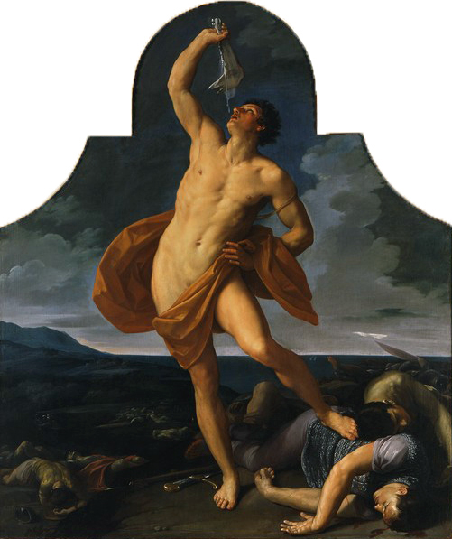 Guido Reni Triumph of Samson Bologna